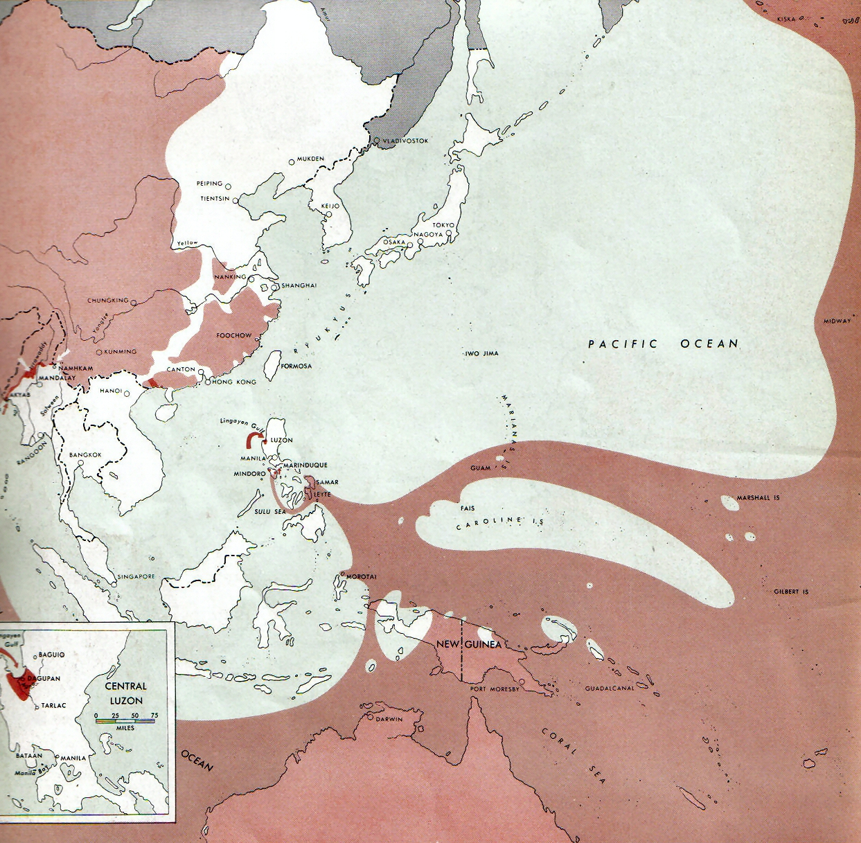 Map of the front against Japan as of 15 Jan 1945: This map is taken from the source "Atlas of the World Battle Fronts in Semimonthly Phases to August 15th 1945: Supplement to The Biennial report of The Chief of Staff of the United States Army July 1, 1943 to June 30 1945 To the Secretary of War". (See Cover, Forward and Map details)